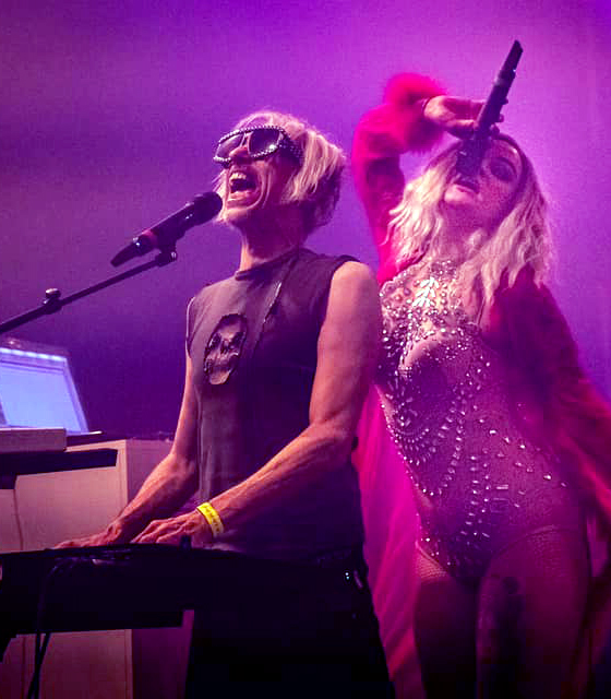 Lords of Acid 2019 (Praga Khan and Marieke)